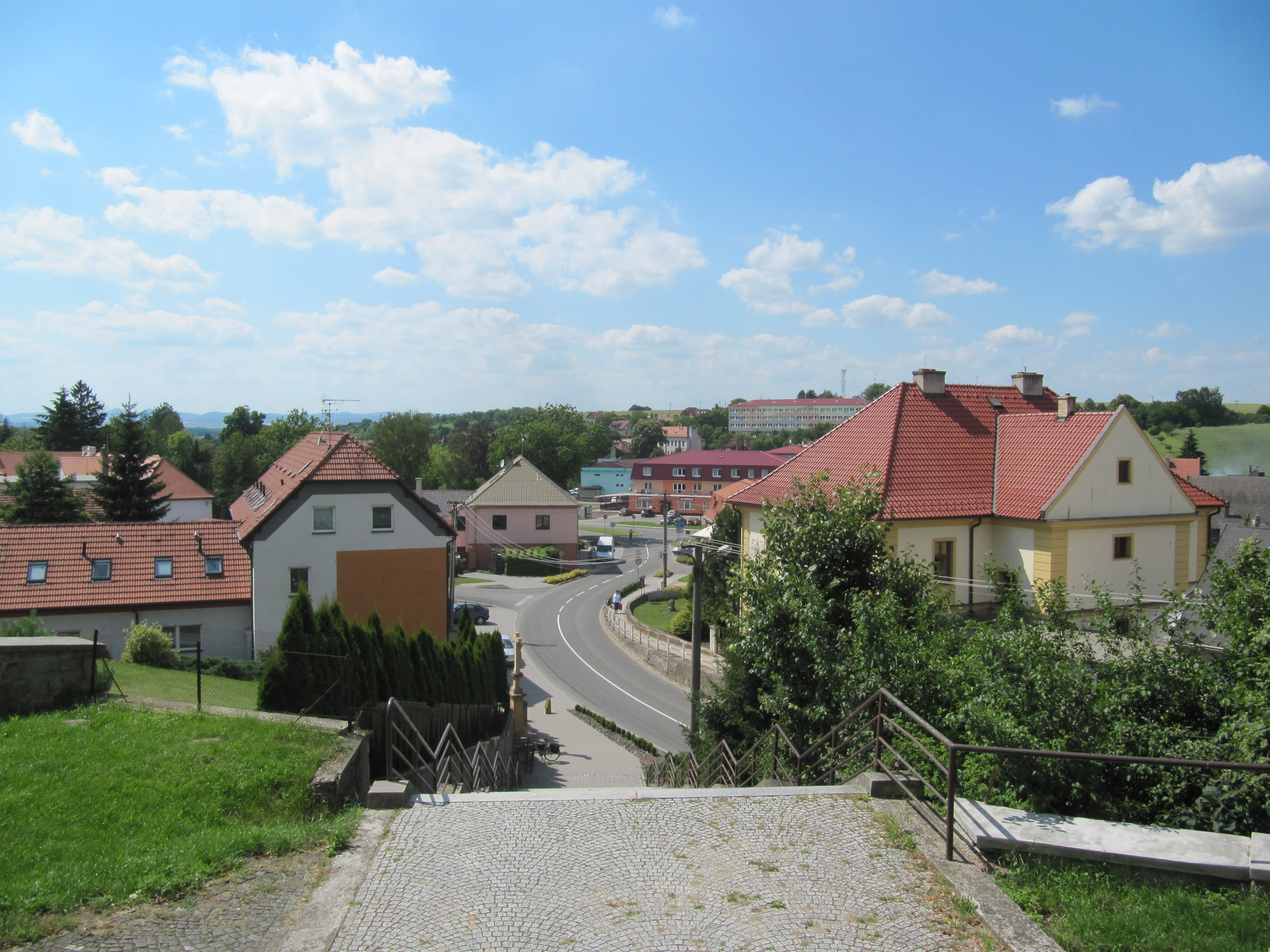 Bílovice, Uherské Hradiště District, Czech Republic.